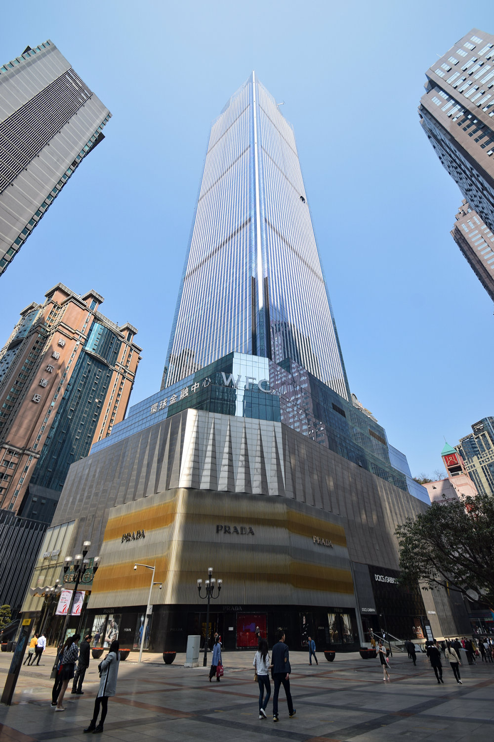 Chongqing World Financial Center (Chongqing WFC), 2nd tallest building in Chongqing (as of 2020-04)（architect: C.Y. Lee @ C.Y. Lee & Partners / Dayuan Architecture Design (Shanghai) Consulting Co., Ltd）